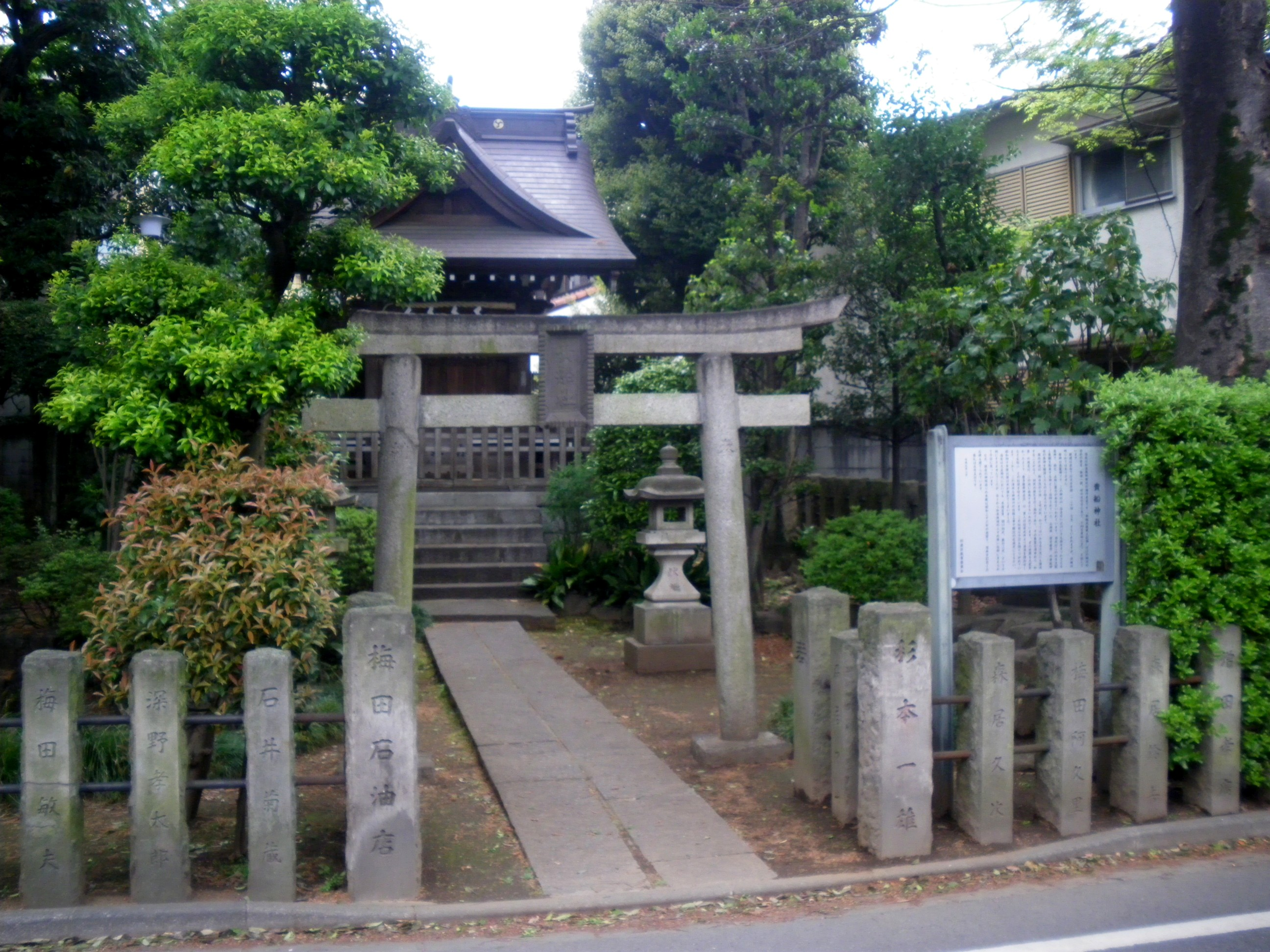 Izumi Kifune Jinja(Suginami,Tokyo)